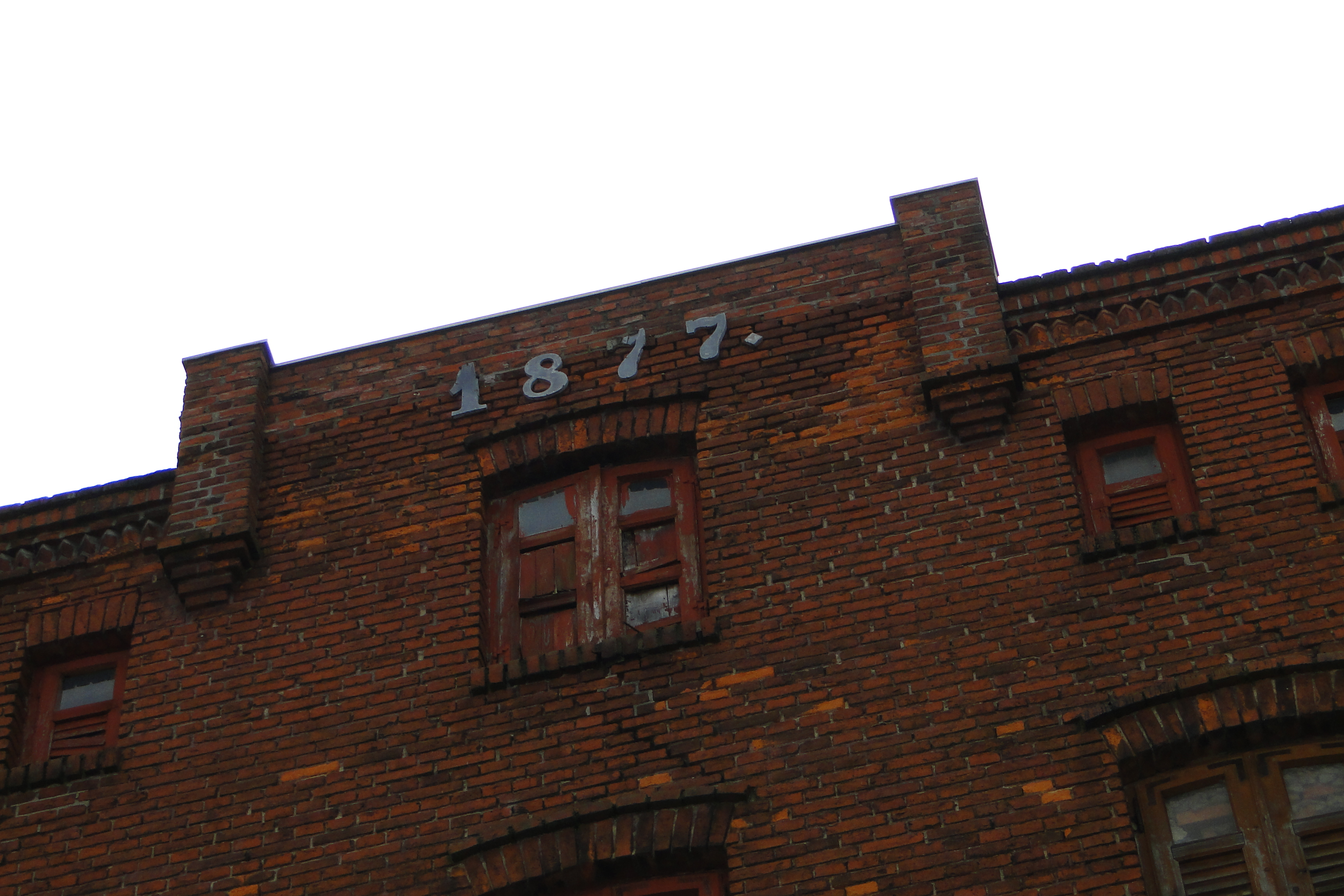 Warehouse in the Severinstraße in Schwerin, Mecklenburg-Vorpommern, Germany